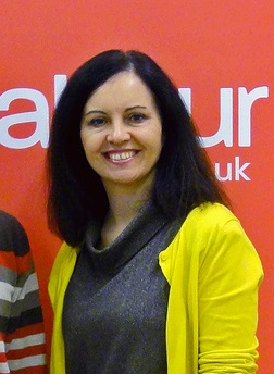 Caroline Flint MP, a former Labour Minister of State is now responsible, among other things, for revitalising the Party in the South-East. It's a tough job and she drew the short straw. It was in this capacity that she visited and addressed the Reigate and Banstead Constituency Labour Party.